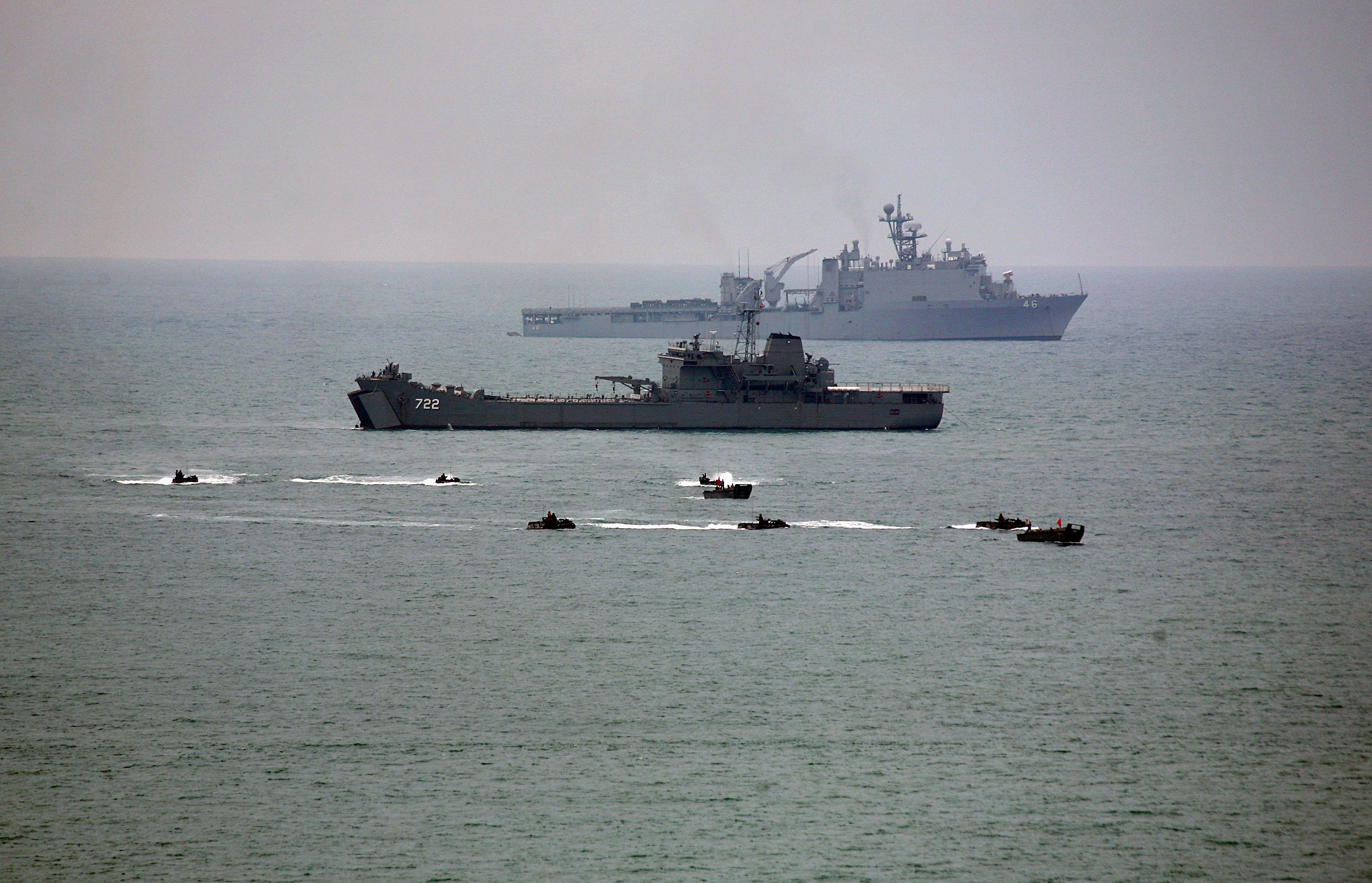 SATTAHIP NAVAL BASE, Thailand (Feb. 10, 2012) Amphibious assault vehicles from the forward-deployed amphibious dock landing ship USS Tortuga (LSD 46) and the Royal Thai Navy medium landing ship HTMS Surin (LST 722) participate in a live amphibious assault. Tortuga is part of the forward-deployed Essex Amphibious Ready Group and is underway participating in Exercise Cobra Gold 2012, an annual Thai-U.S. co-sponsored joint and multinational exercise designed to advance security throughout the Asia-Pacific region and enhance interoperability with participating nations. (U.S. Navy photo by Lt. Cmdr Mark C. Jones/Released)